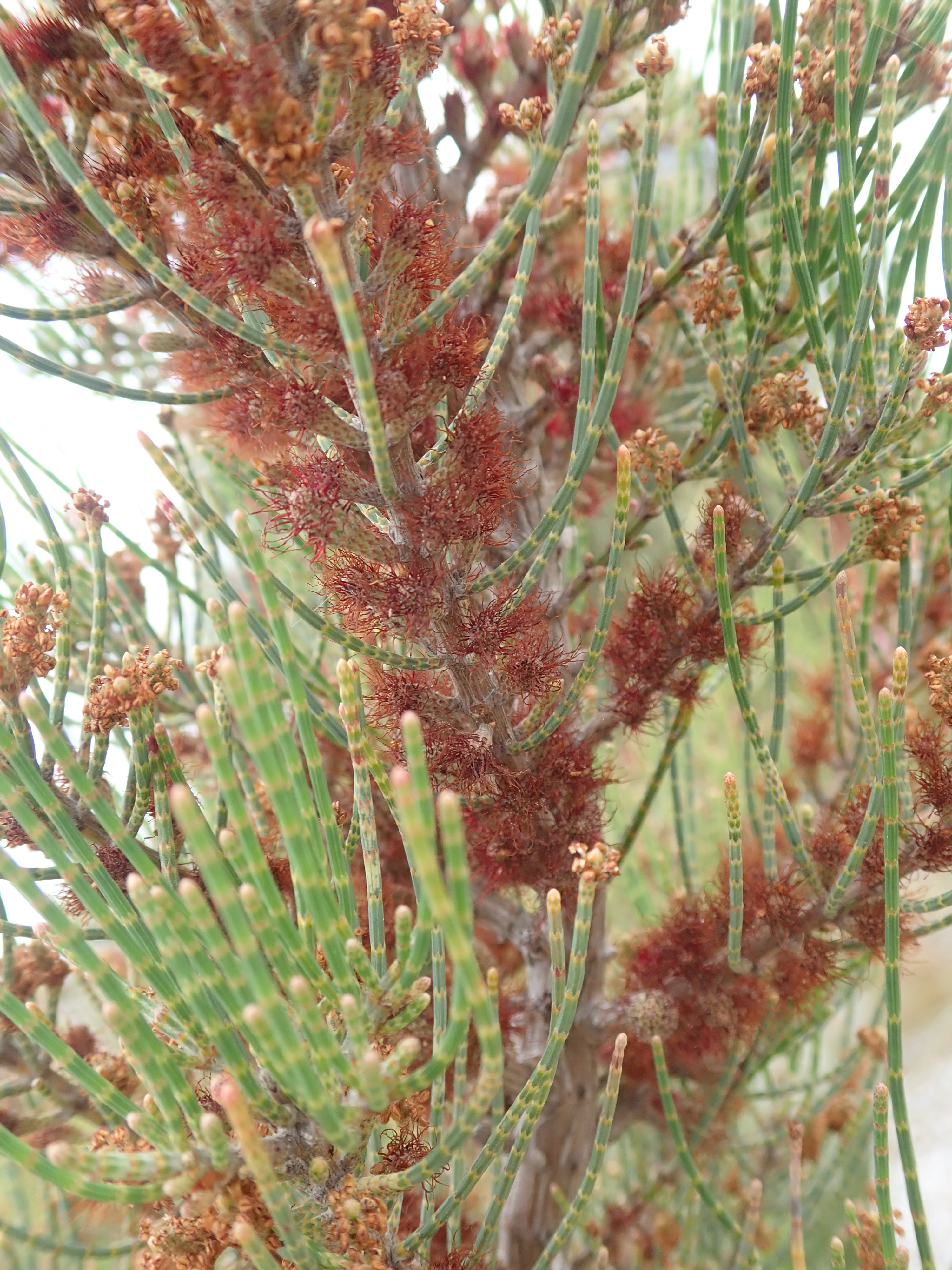 Allocasuarina humilis Kensington Bushland